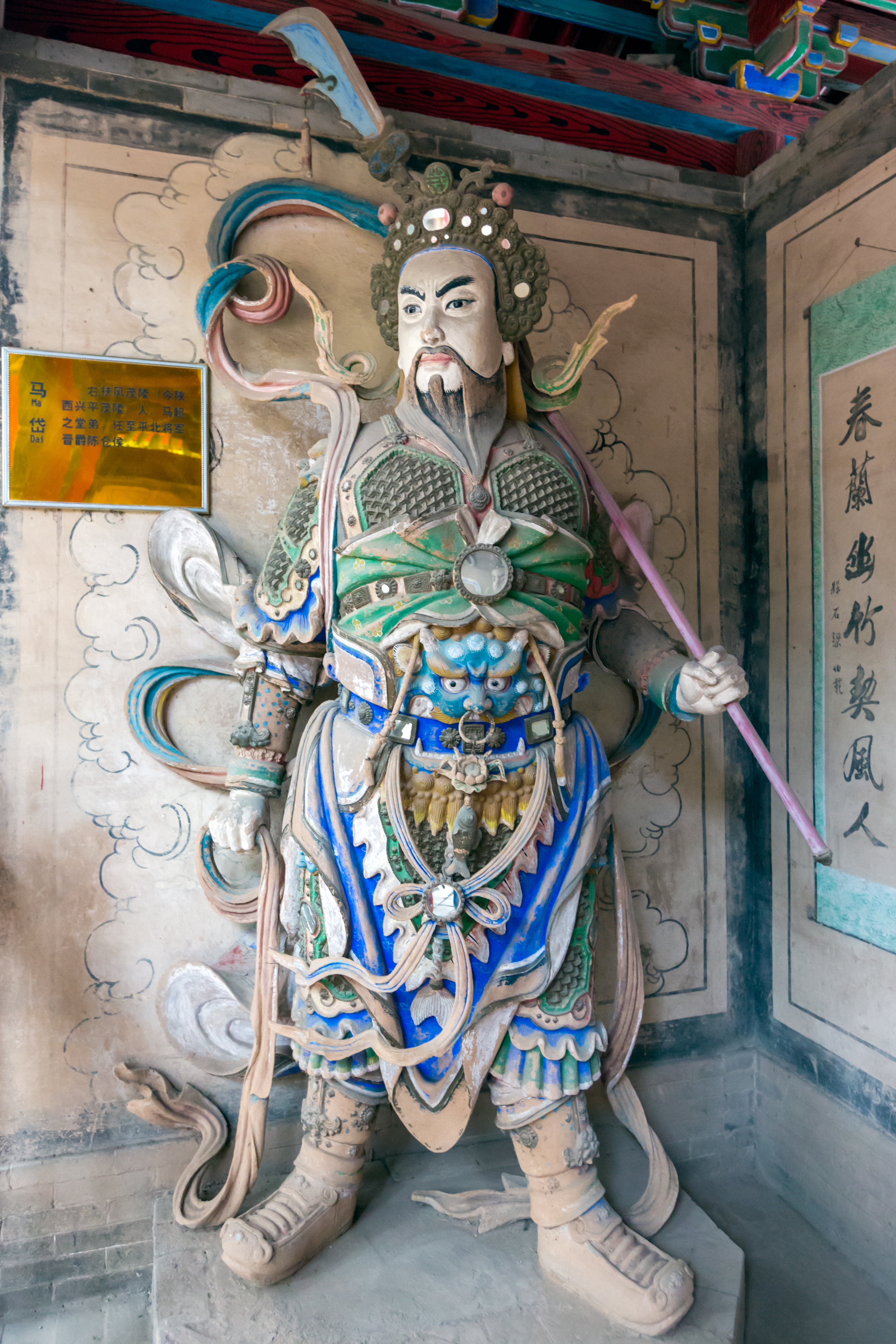 Ma Dai (馬岱)